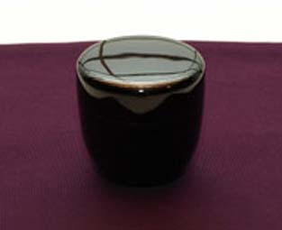 Rikyu-style medium natsume type caddy for matcha